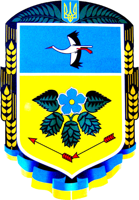 Coat of arms of Chervonoarmiysk Raion